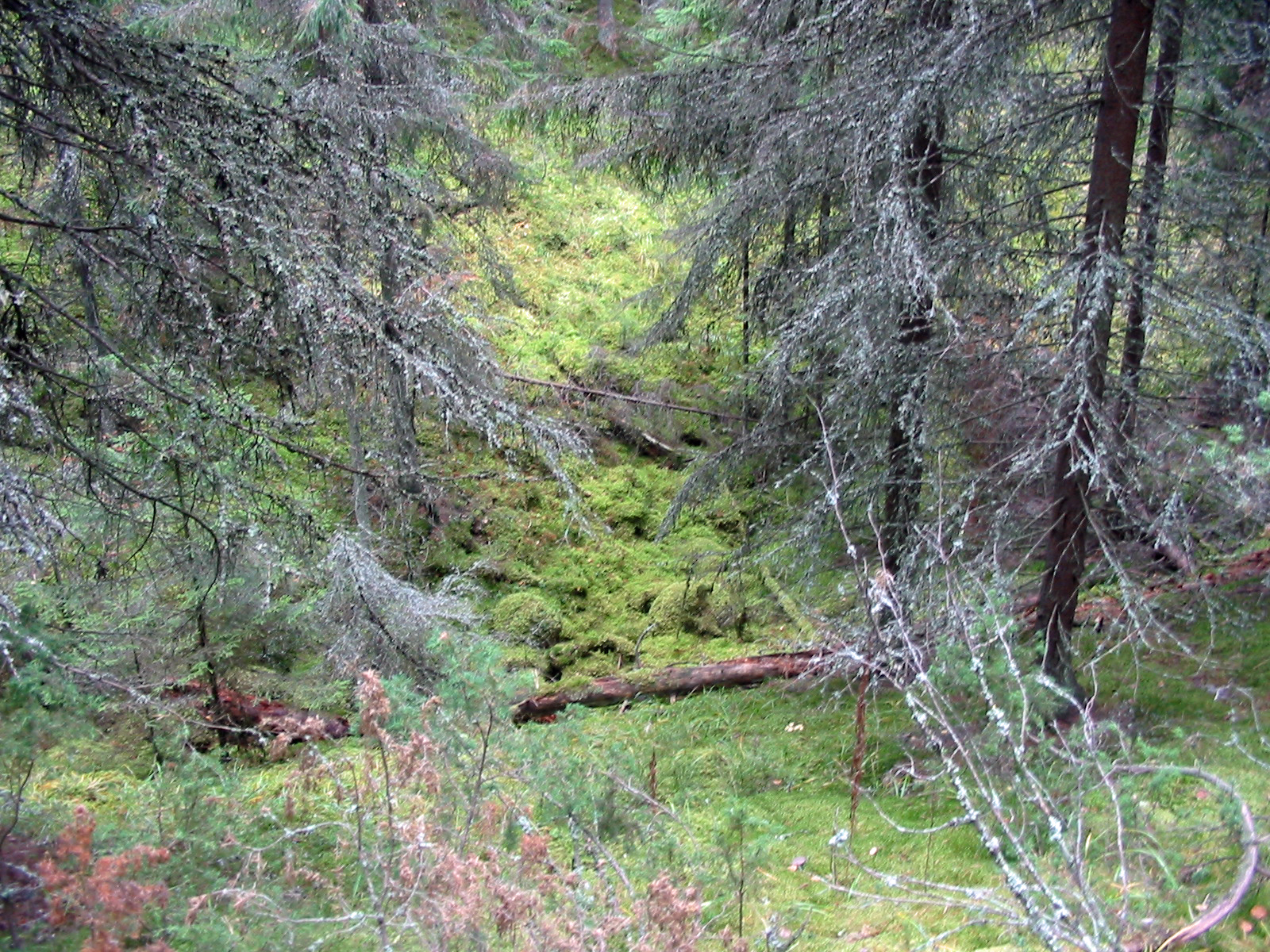 Ämmänkuopat in Pitkäjärvi, Somero, Finland are an example of a glaciofluvial landform called "kettle hole". According to local folklore these particular holes were dug by giants in ancient times in order to make a bridge across the nearby lake. One of the holes is a nature reserve.